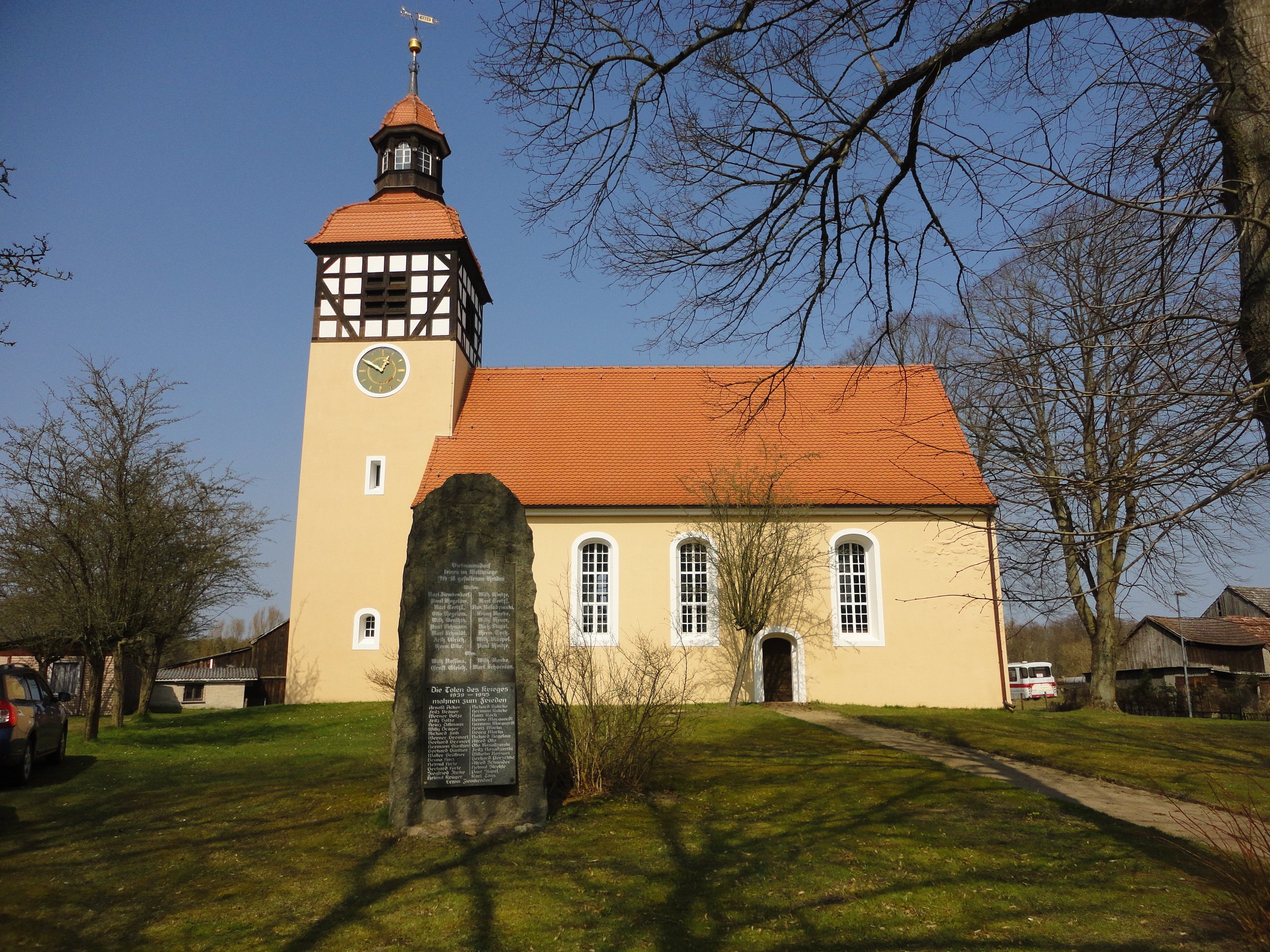 Southern view of the church in Vietmannsdorf , Templin municipality , Uckermark district, Brandenburg state, Germany.